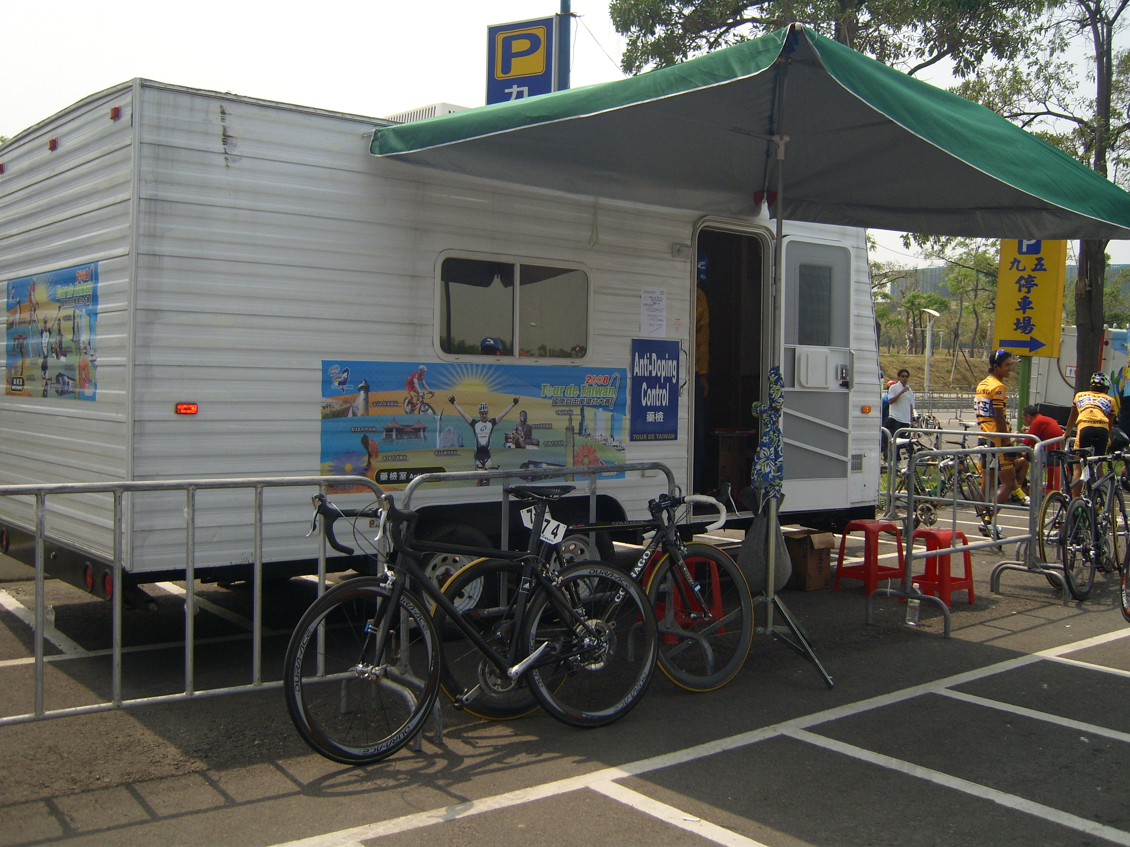 2008 Tour de Taiwan Taichung Stage: Anti-Doping Control Center.